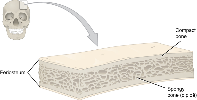 Illustration from Anatomy & Physiology, Connexions Web site. Jun 19, 2013.